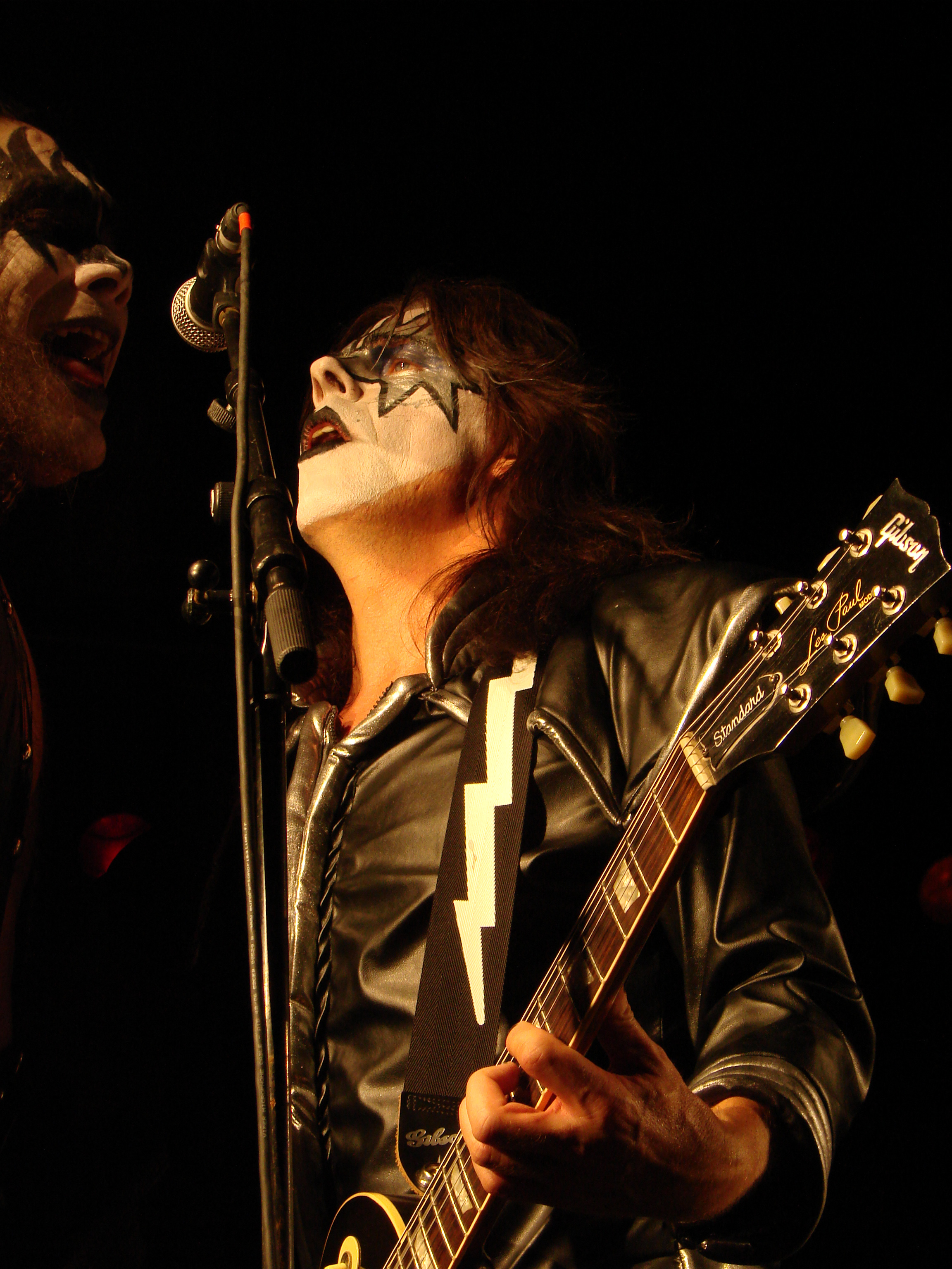 Dynasty, a Kiss tribute band from France in concert.